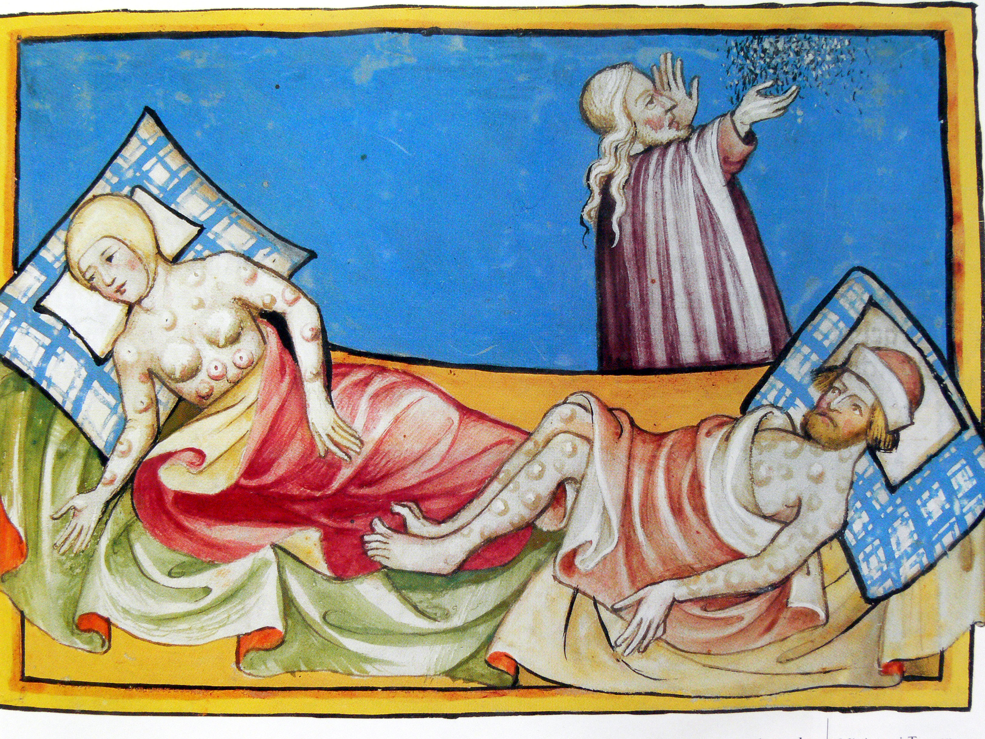 Miniature out of the Toggenburg Bible (Switzerland) of 1411. MS 78 E1. The image depicts Moses in the background with two people suffering from the Biblical plague of boils described in Exodus 9:8-9. Jones, Lori; Nevell, Richard (2016), “Plagued by Doubt and Viral Misinformation: The Need for Evidence-based Use of Historical Disease Images”, in The Lancet Infectious Diseases[1], volume 16, issue 10, pages 235–240